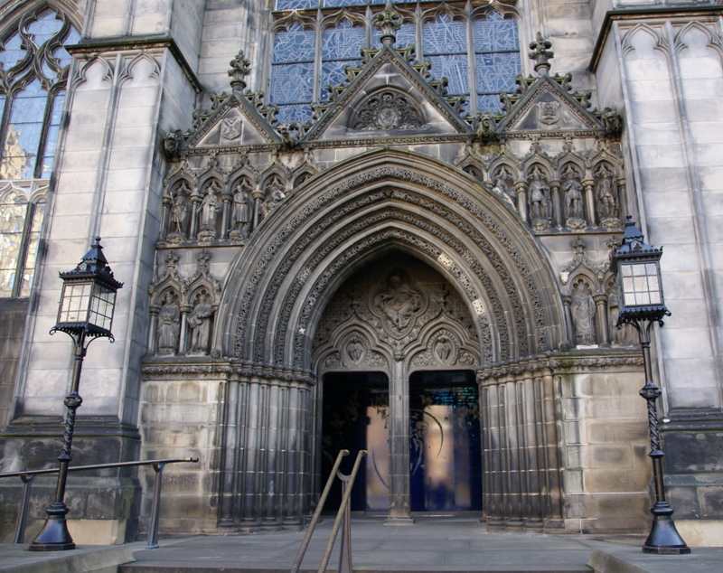 St Giles' Cathedral, Edinburgh, Scotland. West entrance.